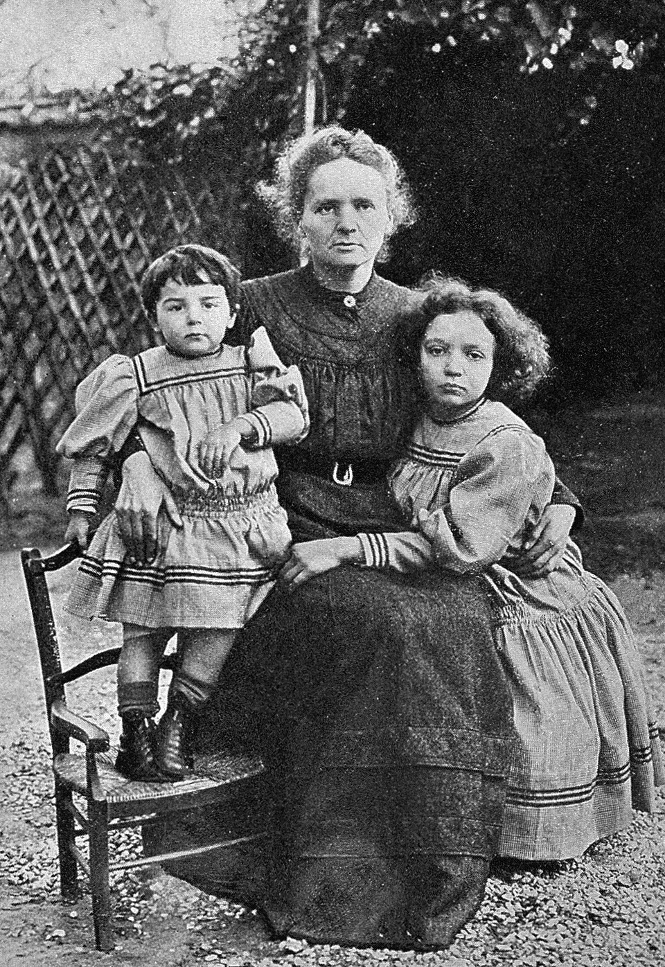 Marie Curie, and her two daughters, Eve and Irene